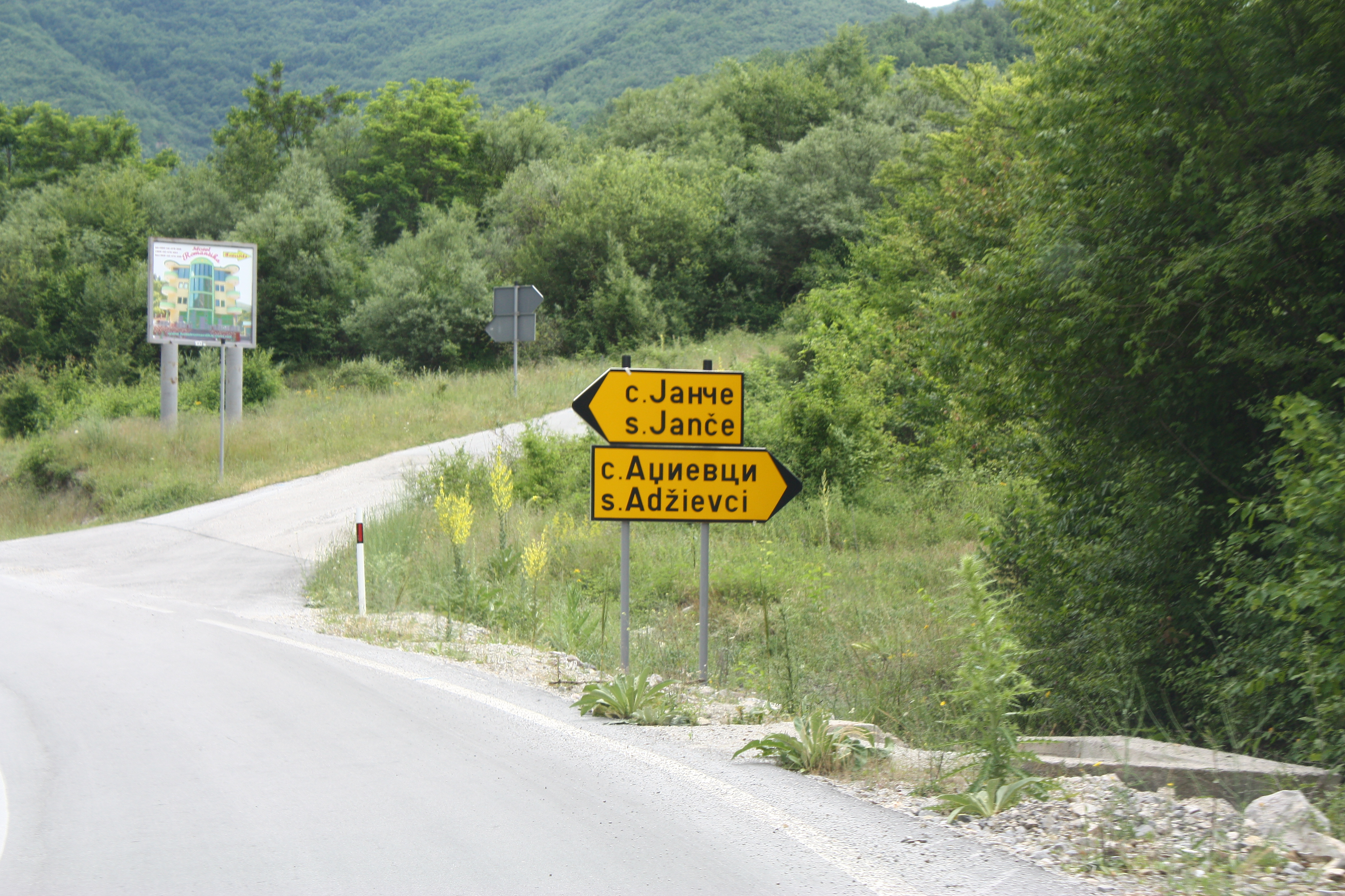 Road sign to Janče and Adžievci in Macedonia